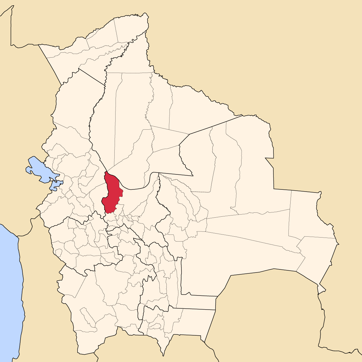 Map of Bolivia showing Ayopaya province